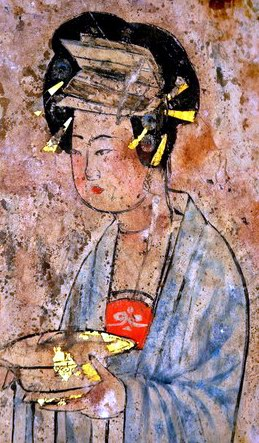 Fresco of a woman, detail from the mural painting "Noble Consort Yang is teaching a parrot to chant sutras", Liao dynasty tomb found in Pao-shan.